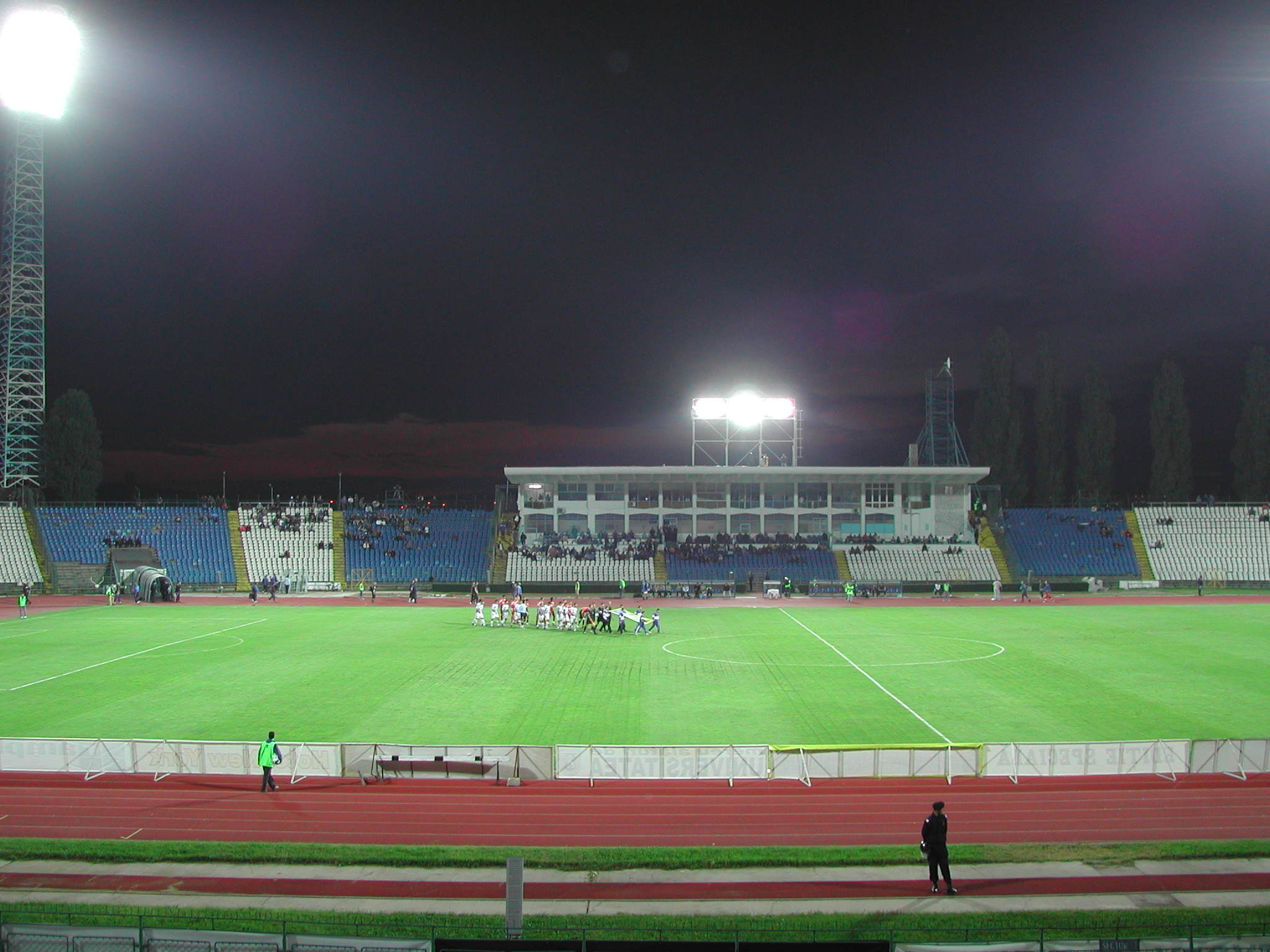 This picture shows the main stand of the stadium Ion Oblemenco in Craiova, Romania.